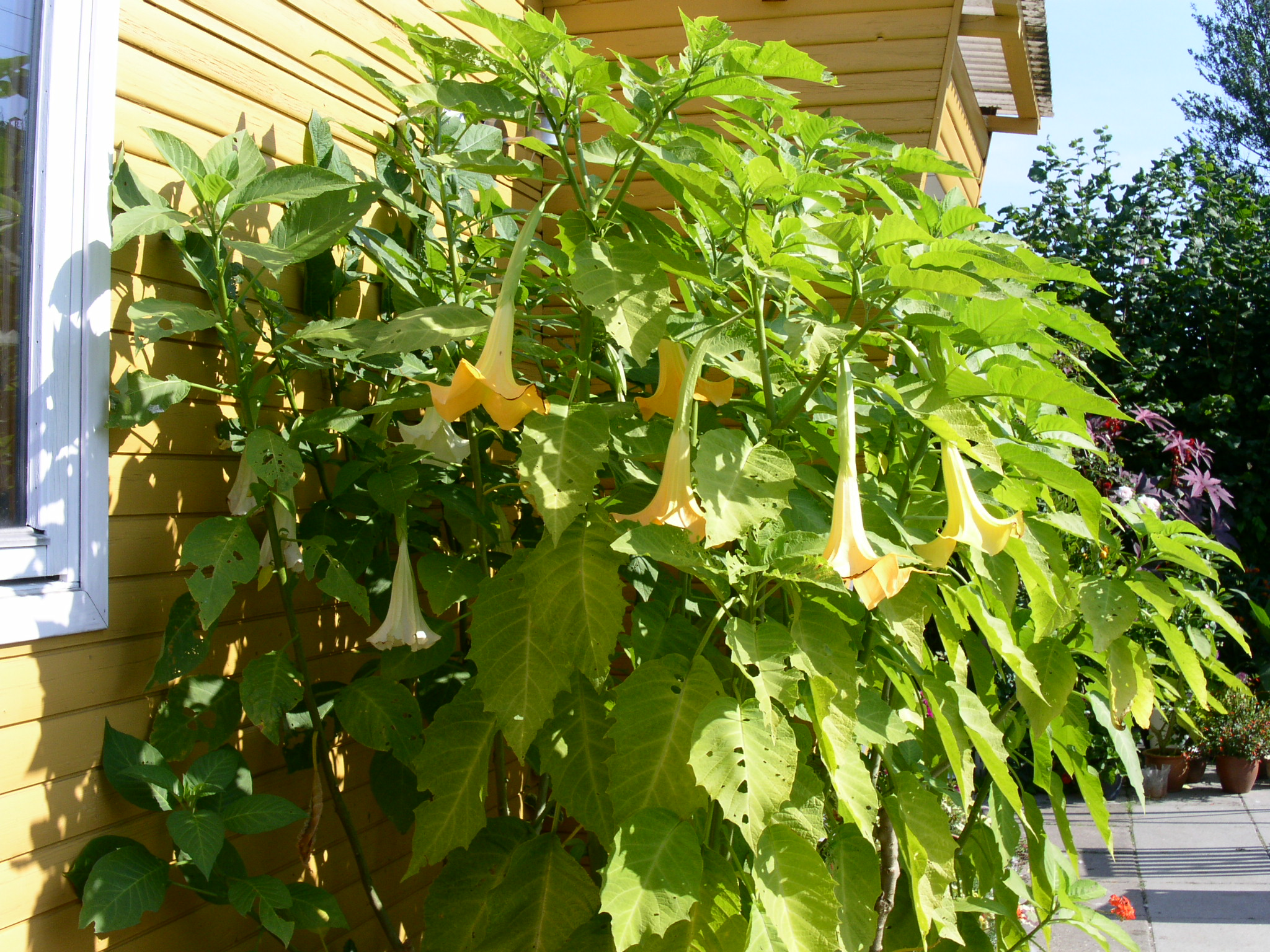 Blooming brugmansia next to house.